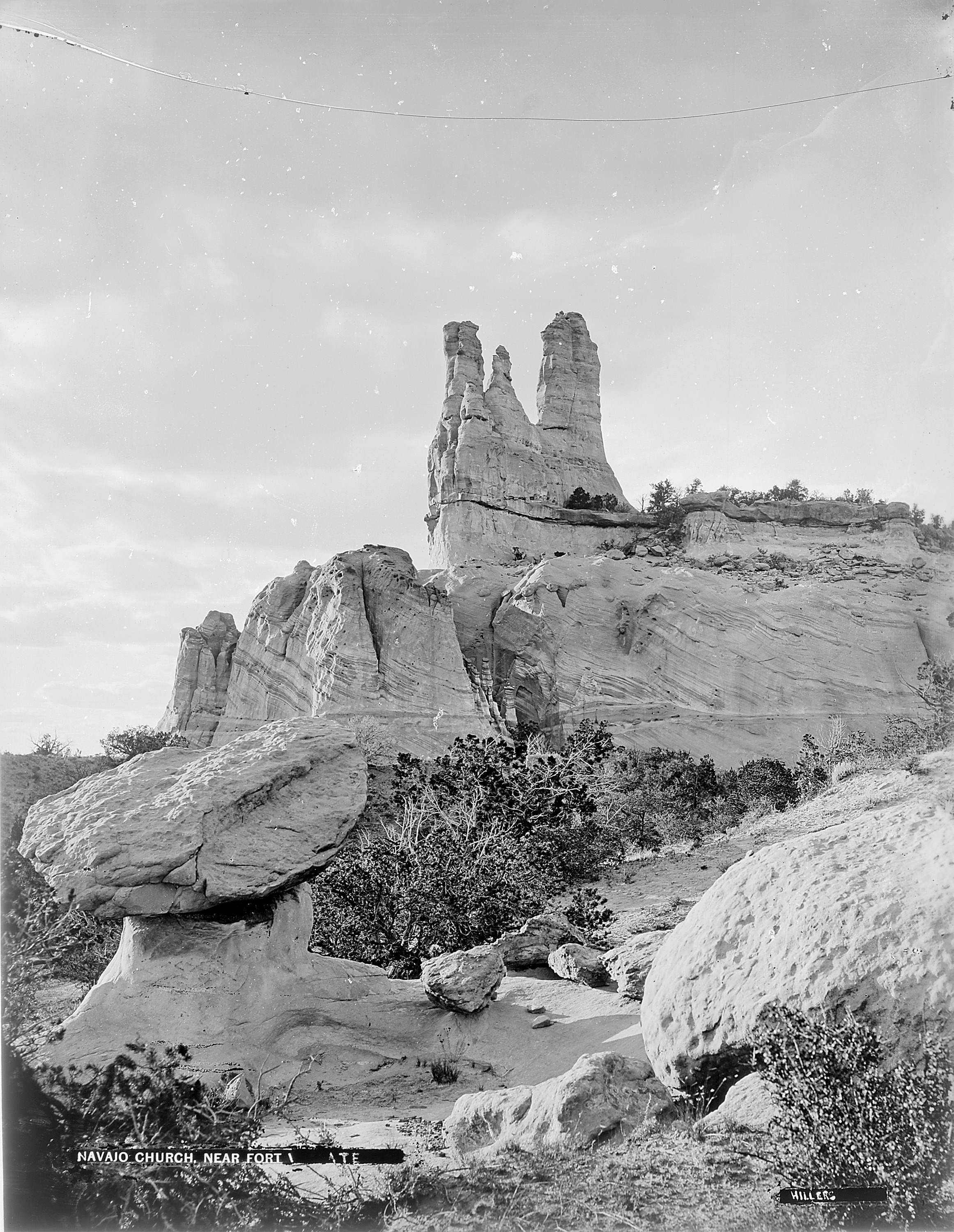 General notes: Now known as Church Rock — on the Church Rock Chapter of the Navajo Nation, in western New Mexico.